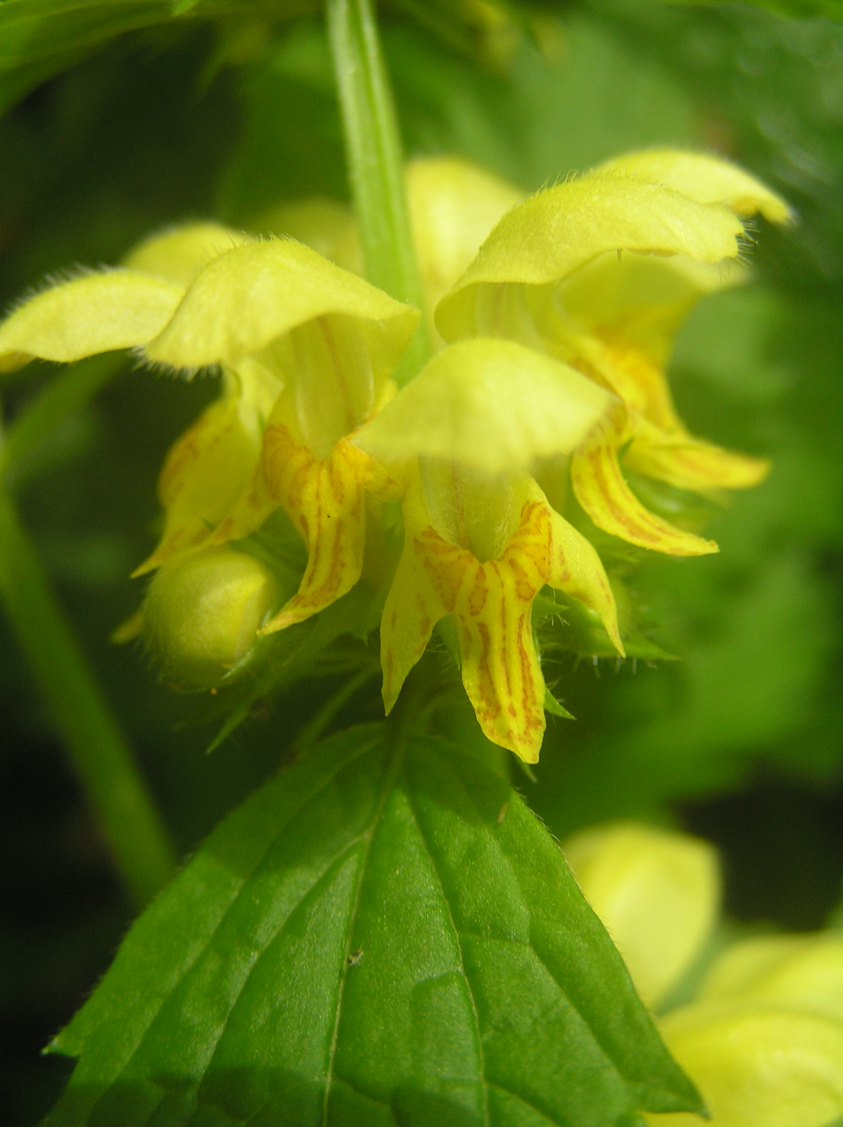 Galeobdolon montanum, near Pohořelice, Southern Moravia, Czech Republic